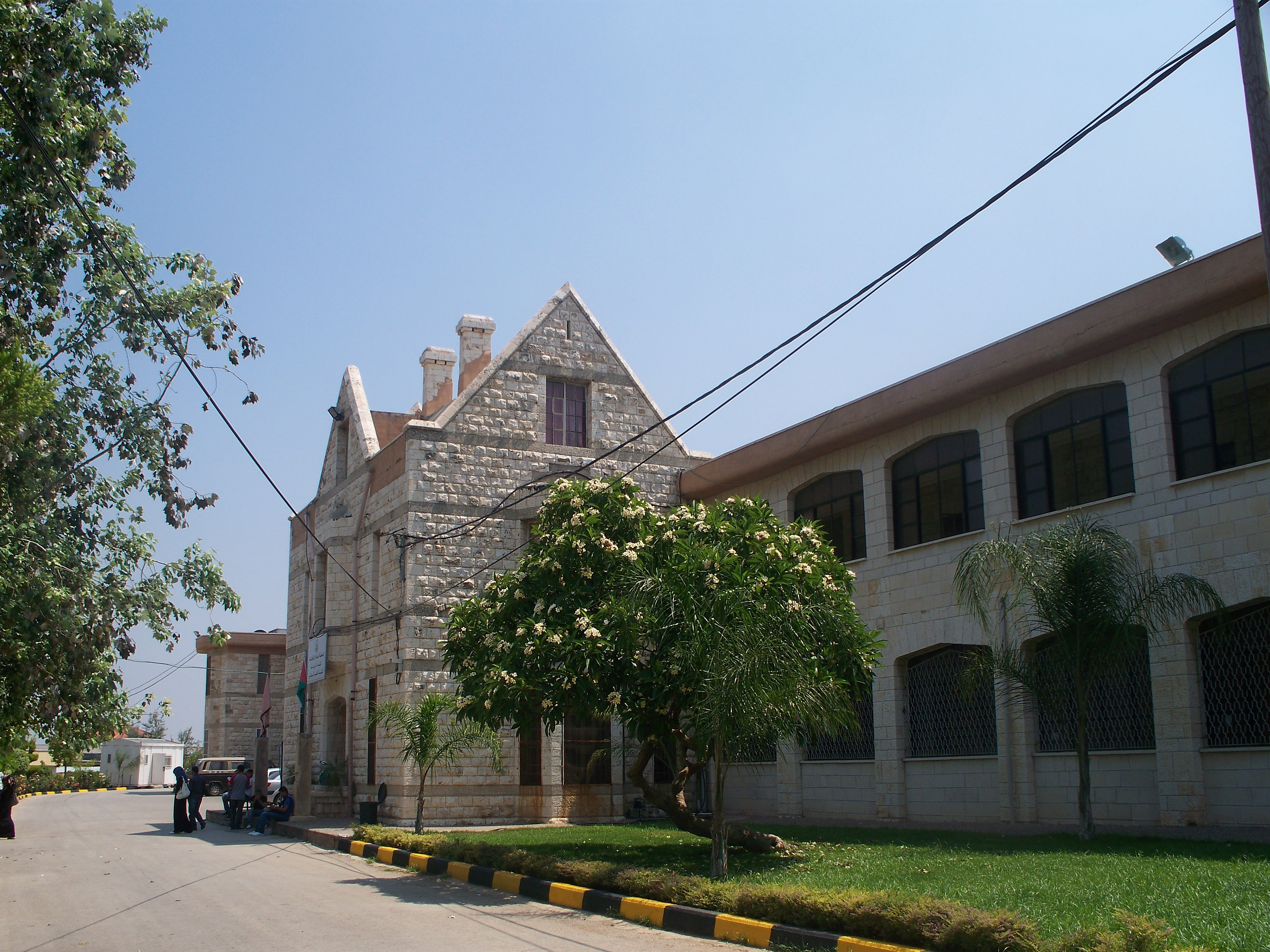 PTU-K